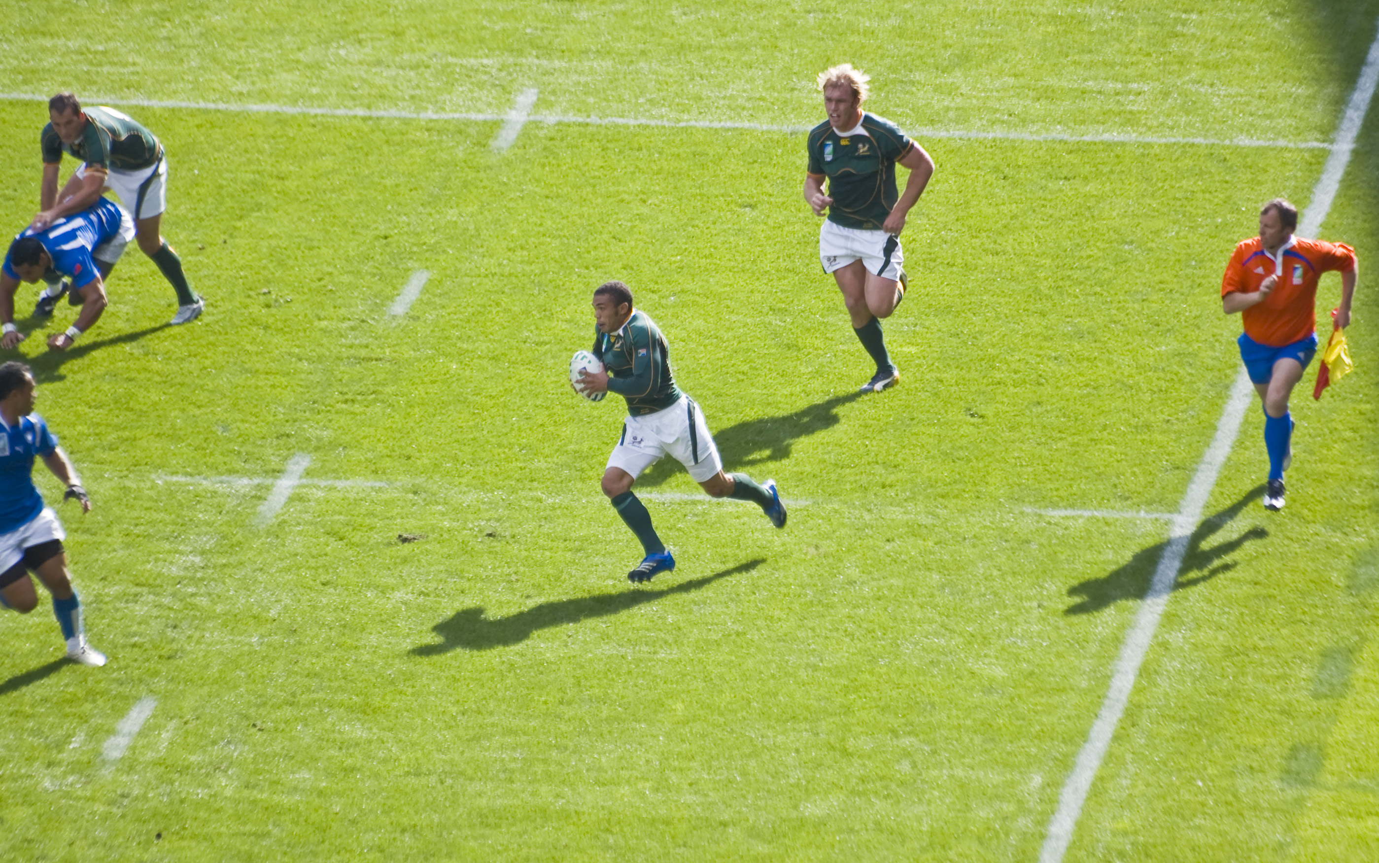 Bryan Habana goes for the line.